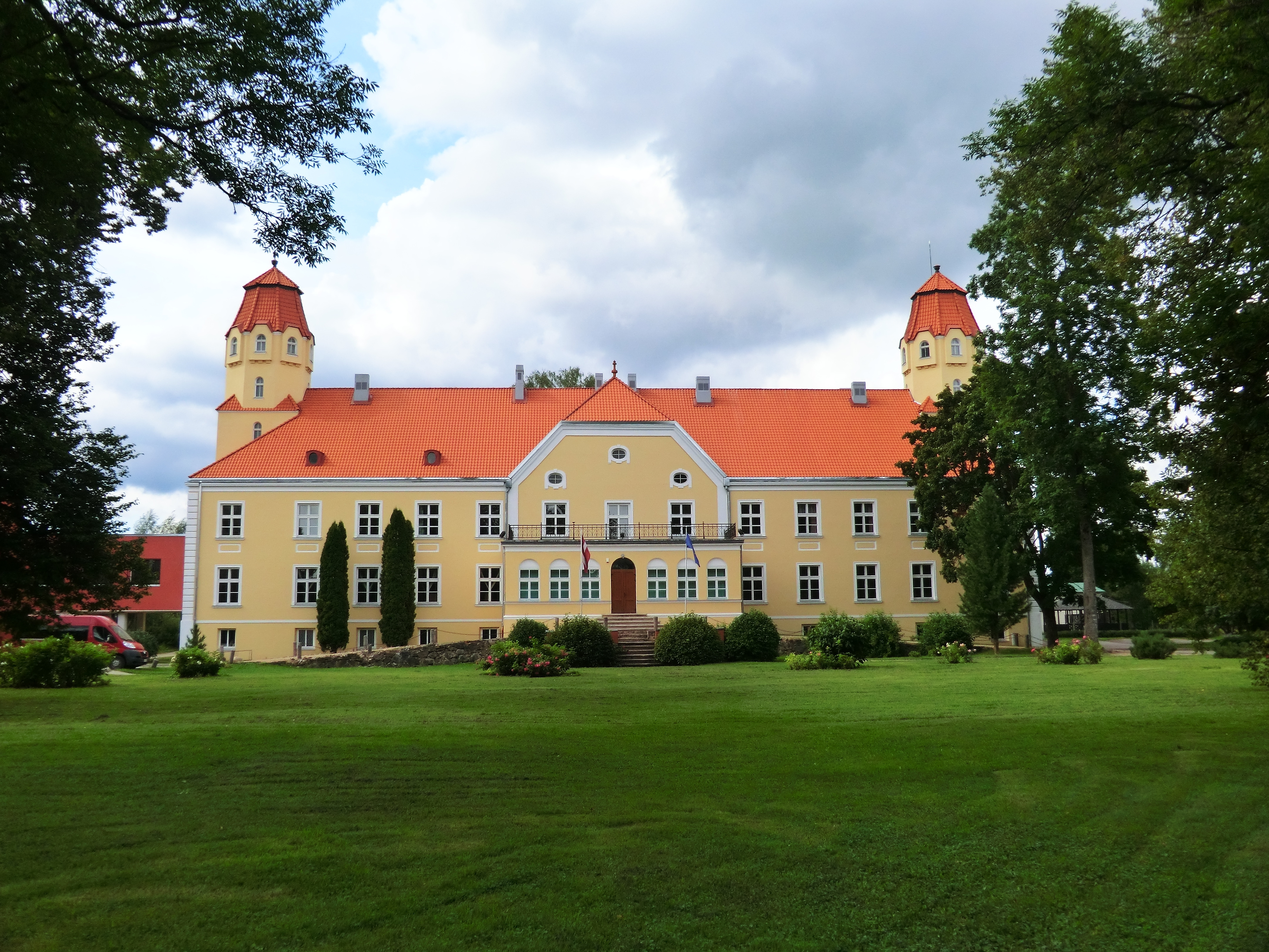 Suntaži ManorLatviešu: Suntažu muižas pils